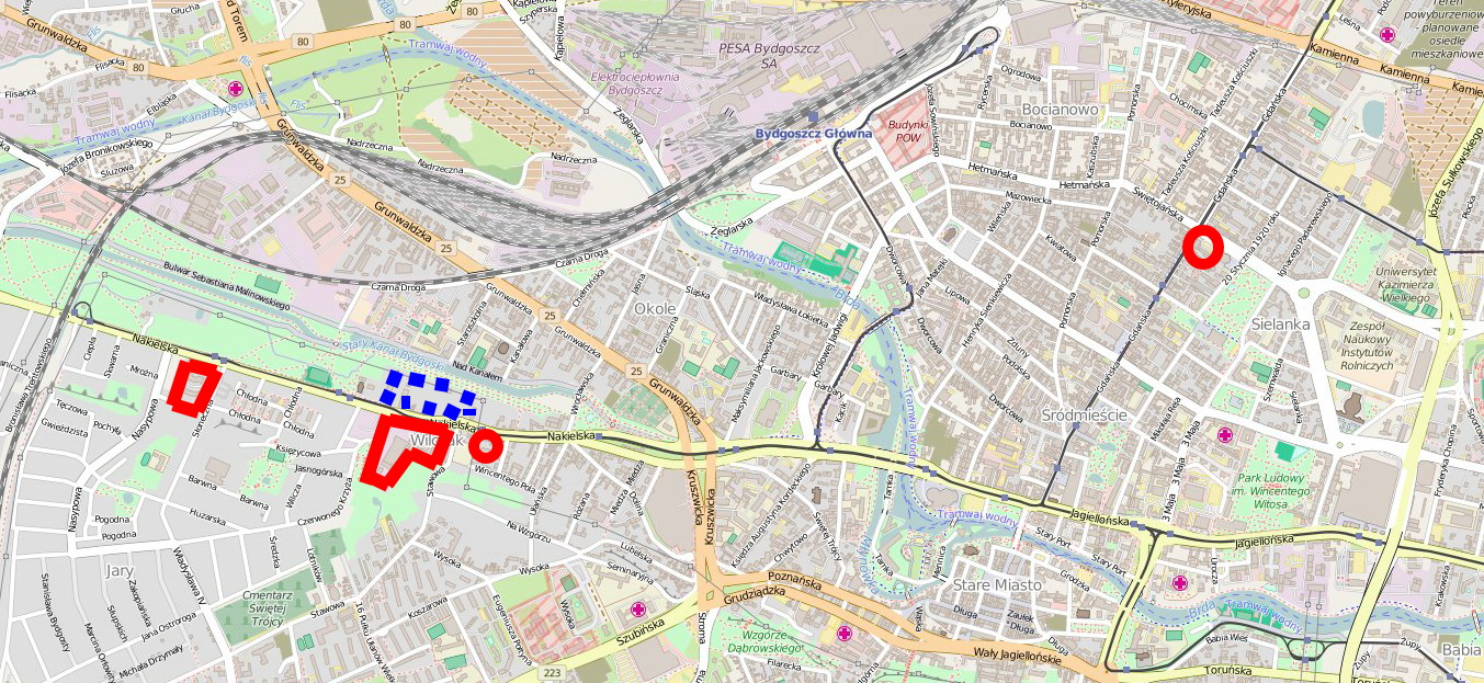 Location in Bydgoszcz